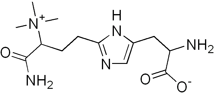 chemical structure of diphthamide created with ChemDraw